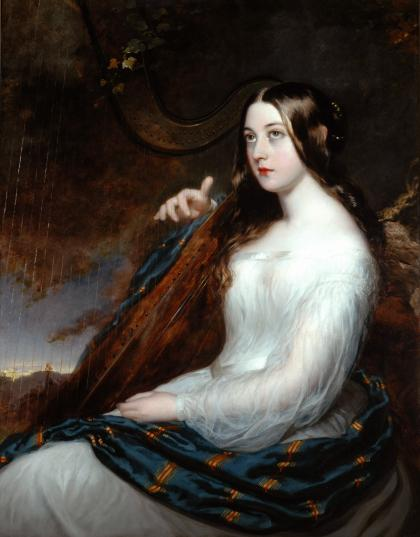 Sarah Curran playing the harp. Sarah Curran, in a white dress, looking upwards while playing a harp.